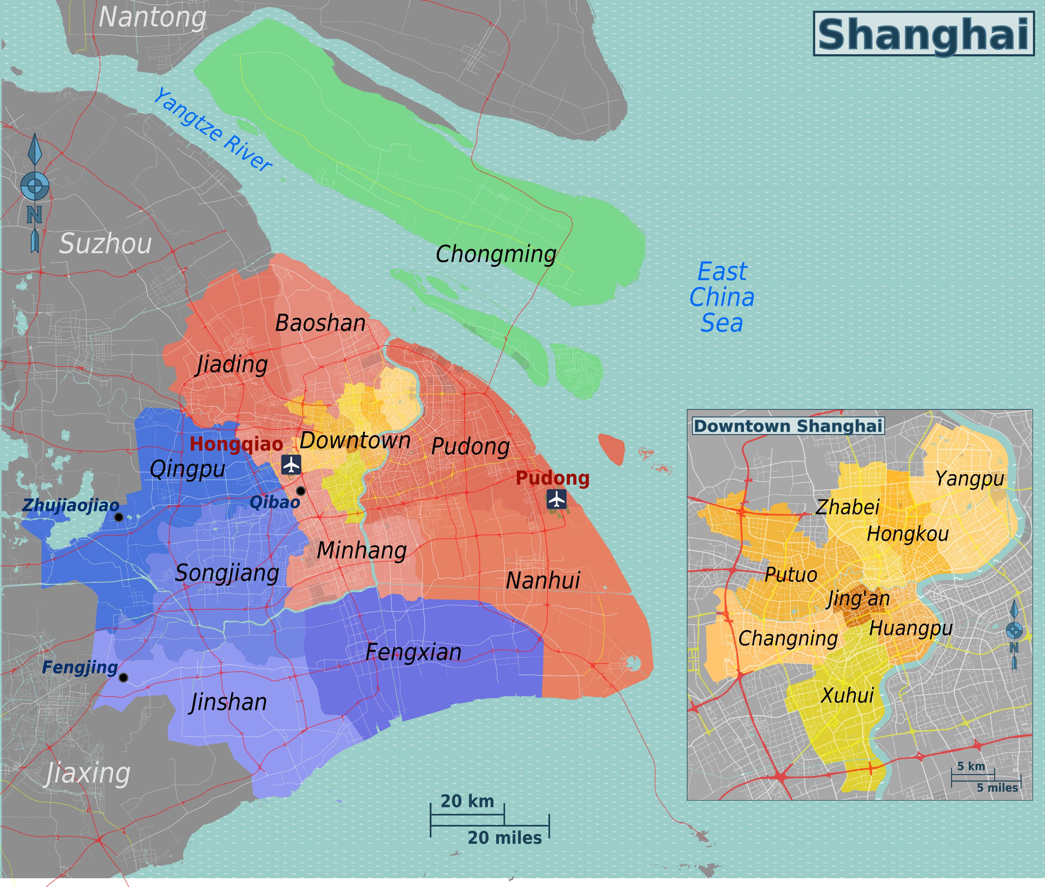 Map of Shanghai's districts